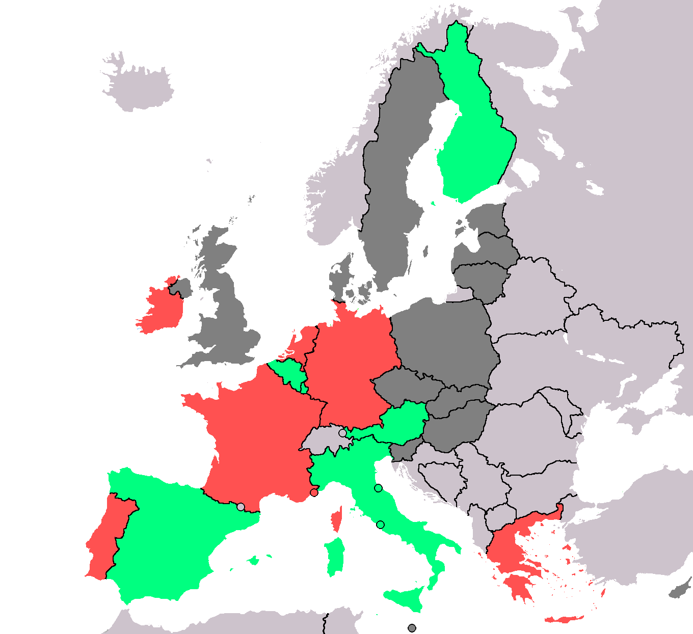 Where states was printing 2euro coin in the year 2005